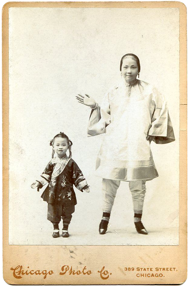 Young Chinese China Woman with Bound Feet & Daughter 1890s Cabinet Card Photo